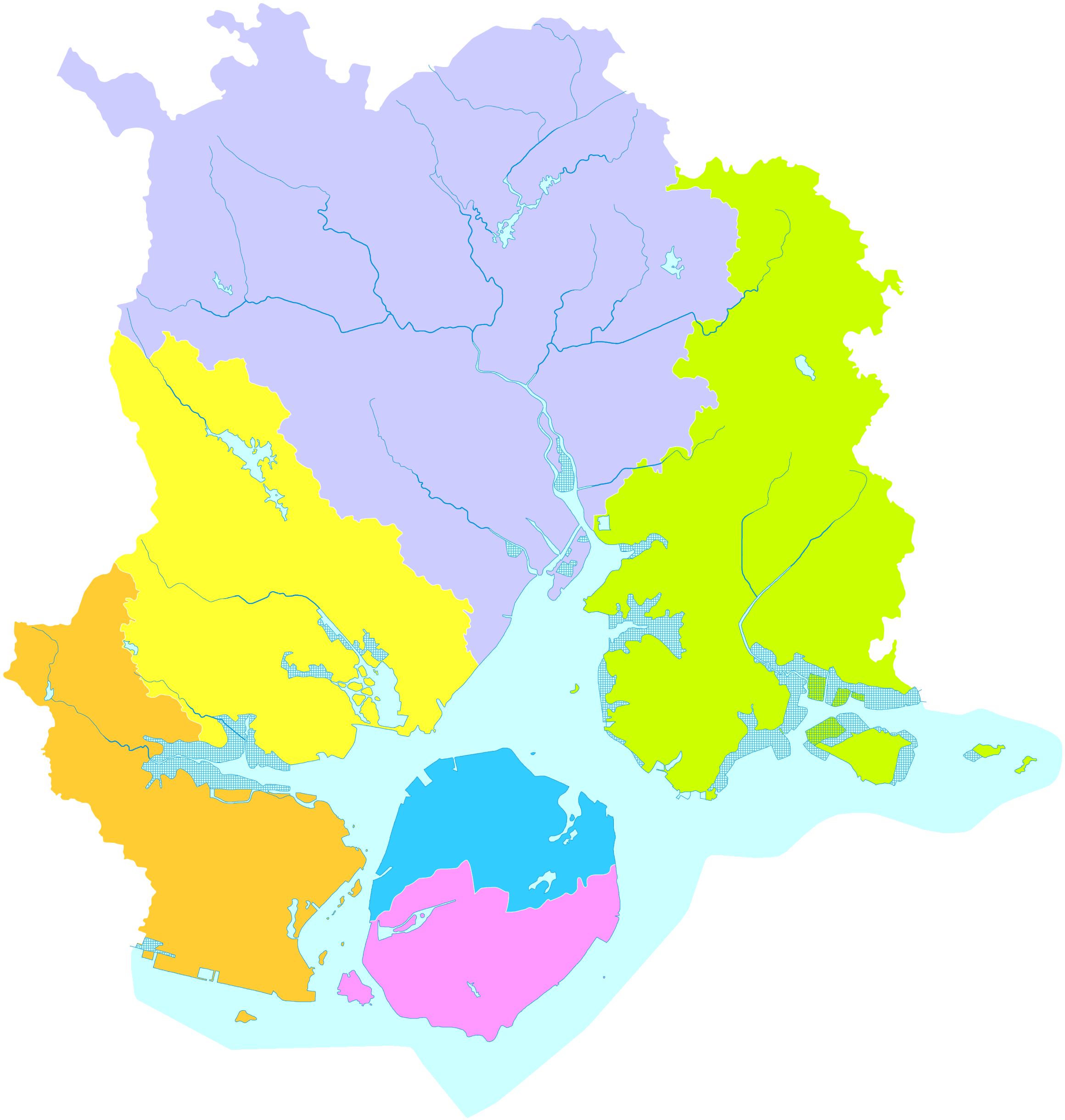 Administrative divisions of Xiamen City, Fujian, China (Note: The Dadeng Islands are claimed by Kinmen County, Taiwan (ROC))